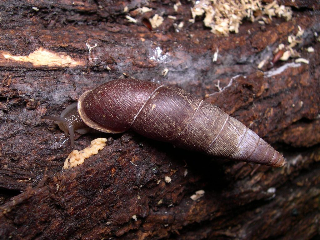 Megalophaedusa martensi (Martens, 1860) (Pulmonata: Stylommatophora: Clausiliidae: Phaedusinae) . The largest species of the family Clausiliidae (Door Snails) in the world. The individual in the photo has a shell of 45.5mm long and weighs 3.2g with the animal. Loc: Hamamatsu, Shizuoka Prefecture, Japan. ja: オオギセル （キセルガイ科：アジアギセル亜科）はキセルガイ科の世界最大種。画像の個体は体重3.2グラム、貝殻は長さ45.5ミリ。 場所：浜松市